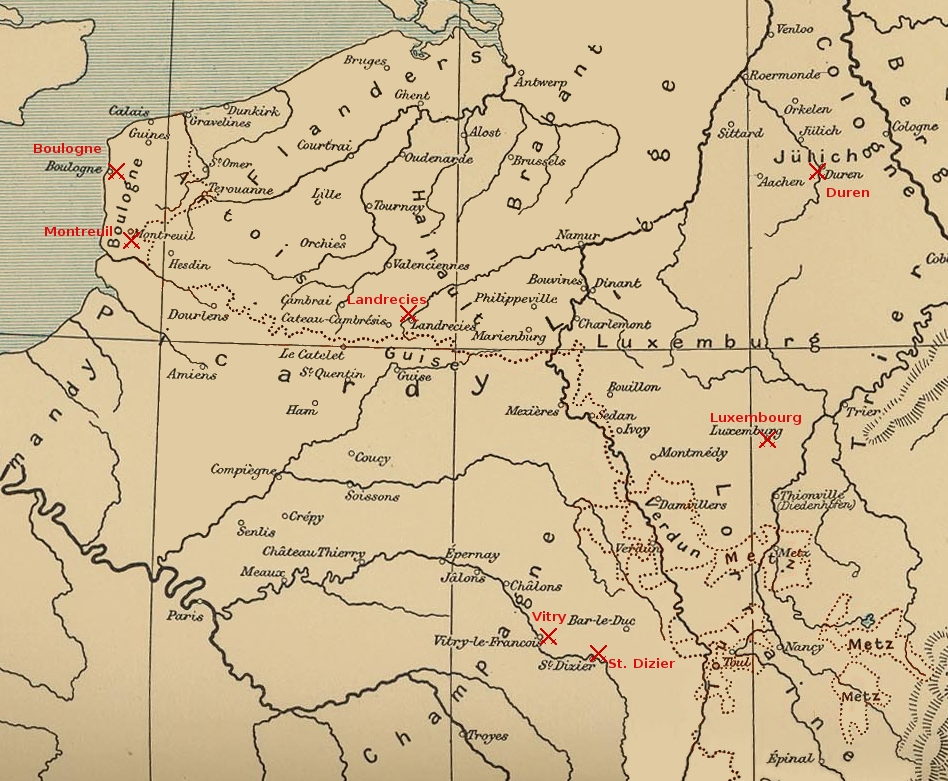 Battles in northern France during the Italian War of 1542-46